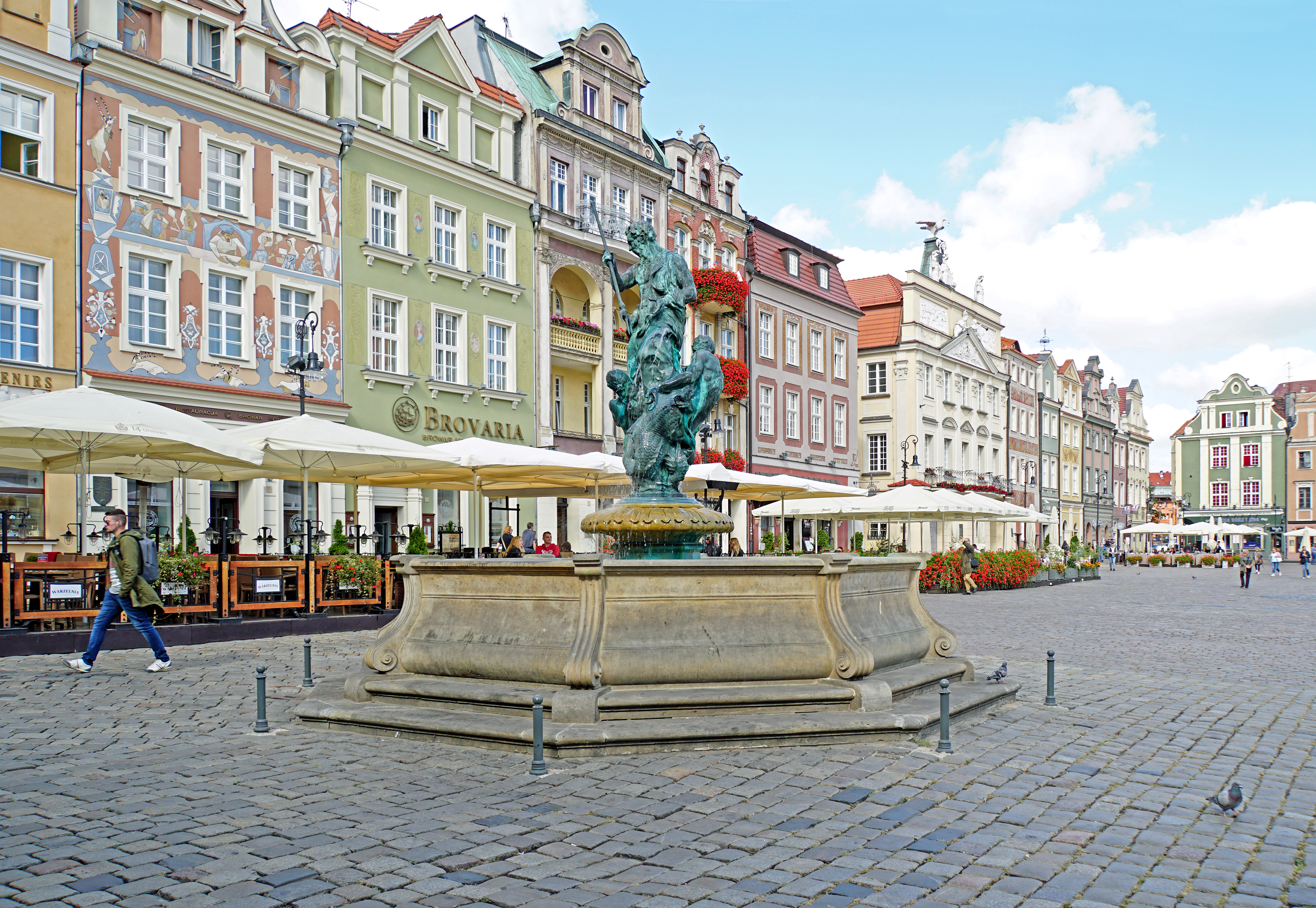 PLEASE, NO invitations or self promotions, THEY WILL BE DELETED. My photos are FREE to use, just give me credit and it would be nice if you let me know, thanks. There is a fountain at each corner of the square, this is the Neptune fountain. There is also the Fountain of Prozerpingy, Fountain of Apollo and the Fountain of Mars. The square was originally laid out in 1253, with each side divided into 16 equal plots. Major changes were made from 1550 onwards. Most of the buildings in the square were reconstructed following heavy damage in the Battle of Poznan (1945).